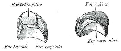 The left lunate bone.